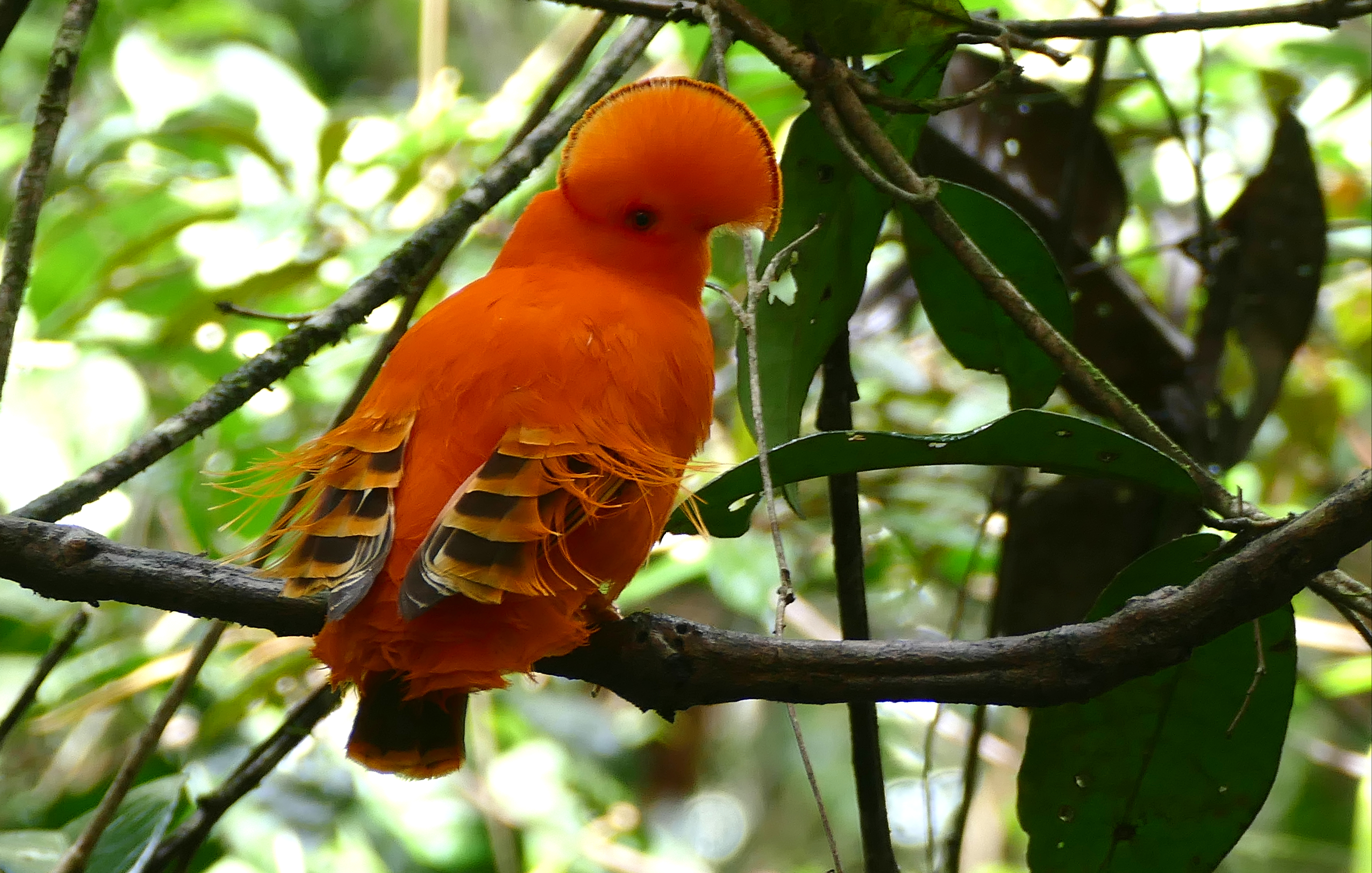 Cock-of-the-rock Trail, PK41, D6 Route de Kaw, Roura, French Guyana, FRANCE